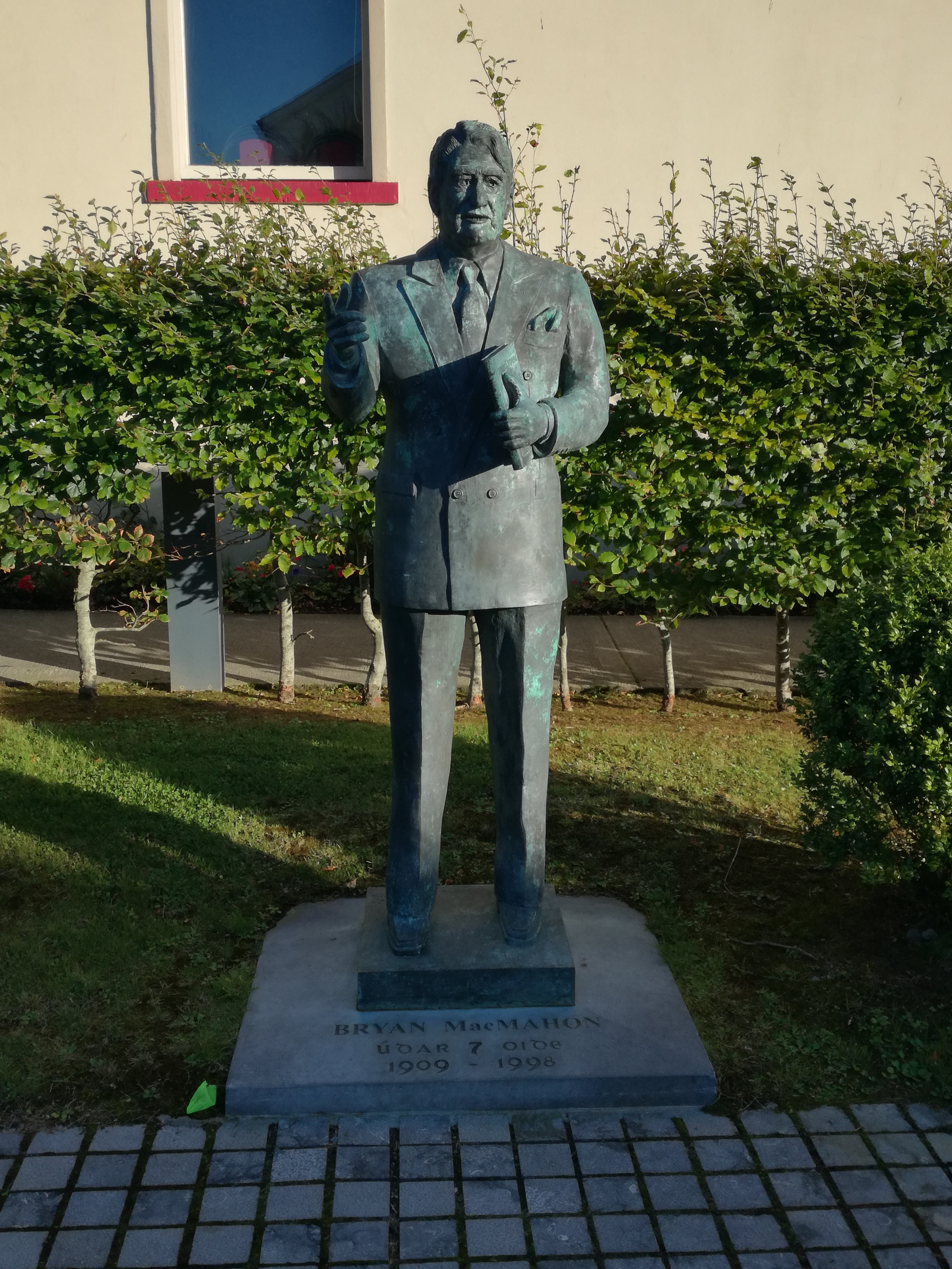 Bryan MacMahon's, Irish short story writer, statue in Listowel, County Kerry